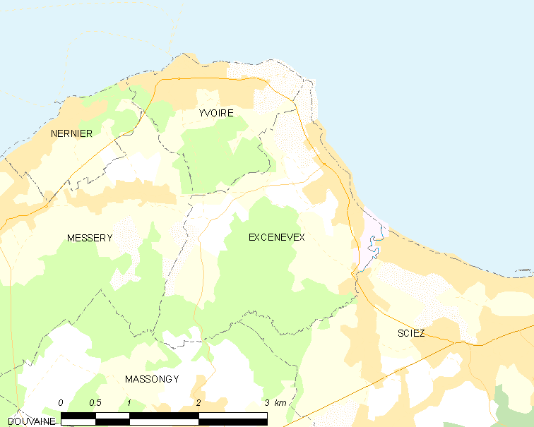 Map of French municipality Excenevex